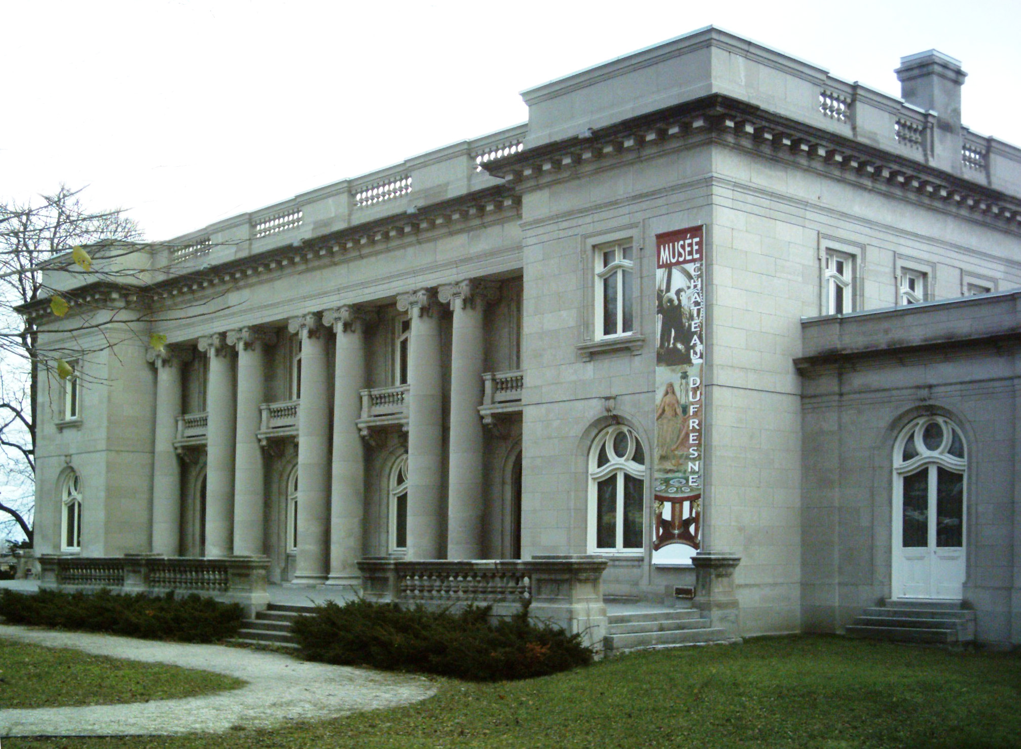 North facade of the Château Dufresne, 4040 Sherbrooke Street East, Montreal, Quebec, Canada.